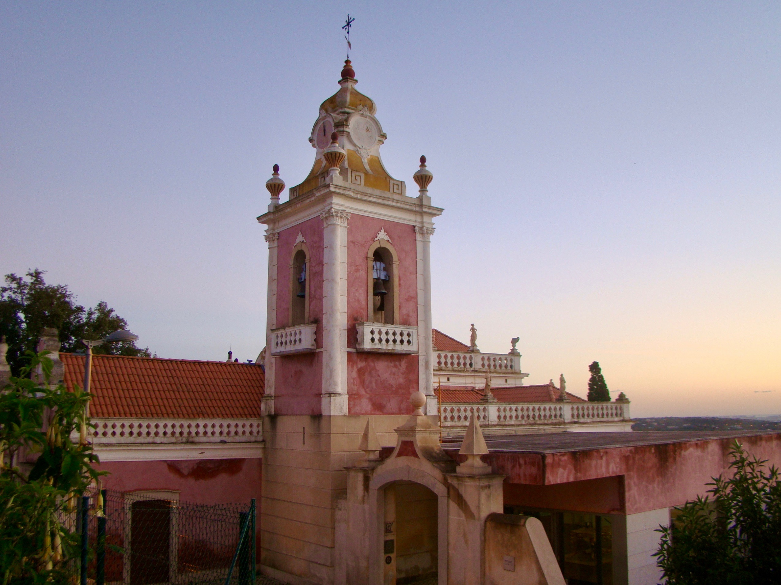 Estoi Palace's tower, in Faro, Algarve - Southern Portugal. Photo taken on 30/11/2018